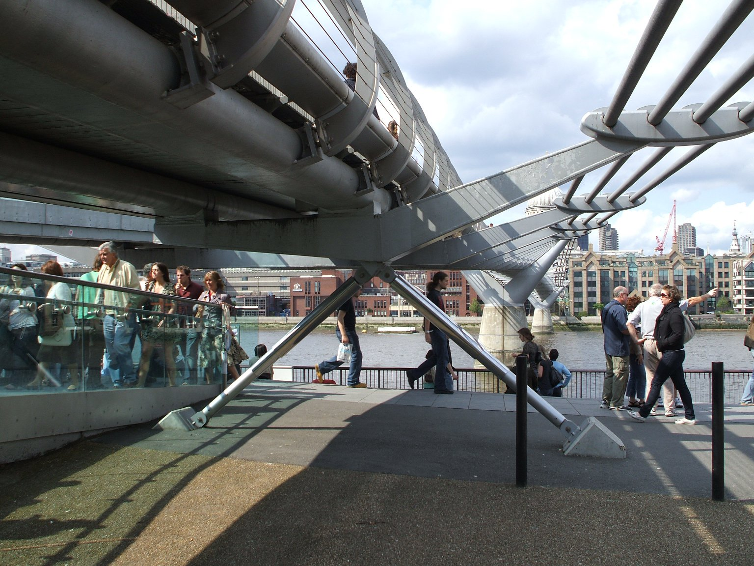 Millennium Bridge vertical mode shock absorbers